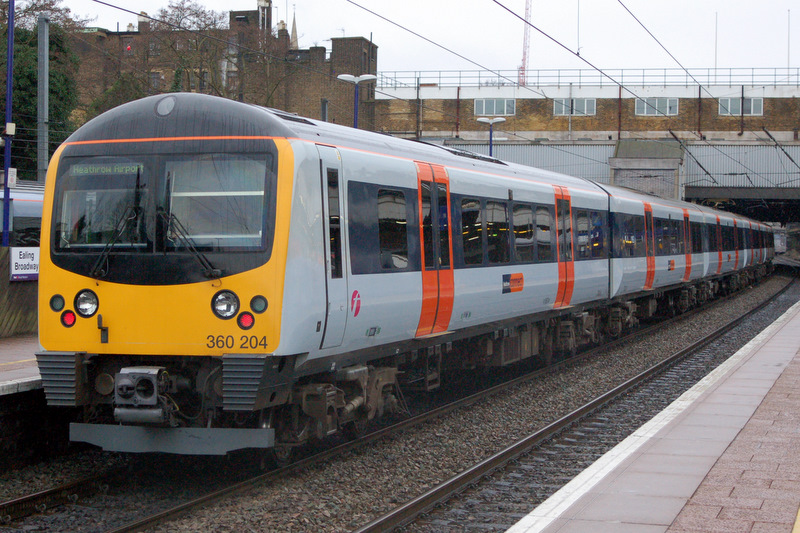 Heathrow Connect 360204 stopping at Ealing Broadway.